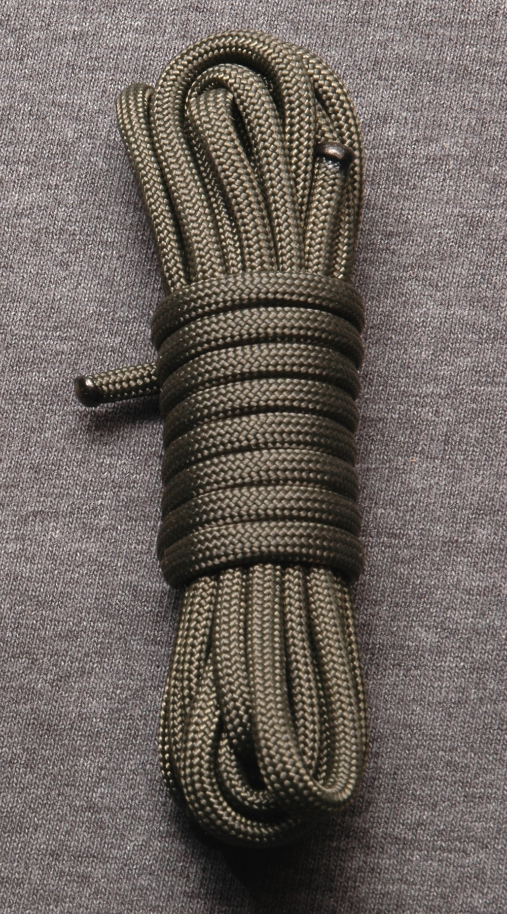 Olive drab Parachute cord, purchased at a surplus store in the US. It was labeled: "Rothco, "G.I. PLUS", Type III Commercial, Nylon Paracord, Made by a Certified US Gov't Contractor, 550 lb. Test, 7 Strand Core, 100% Nylon, Made in the USA". The pictured coil contains 10 ft (3 m) of parachute cord.